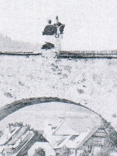 Römerbrücke Statuen